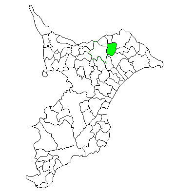 Location Map of former Taiei Town, Chiba Prefecture, Japan, now part of Narita City.